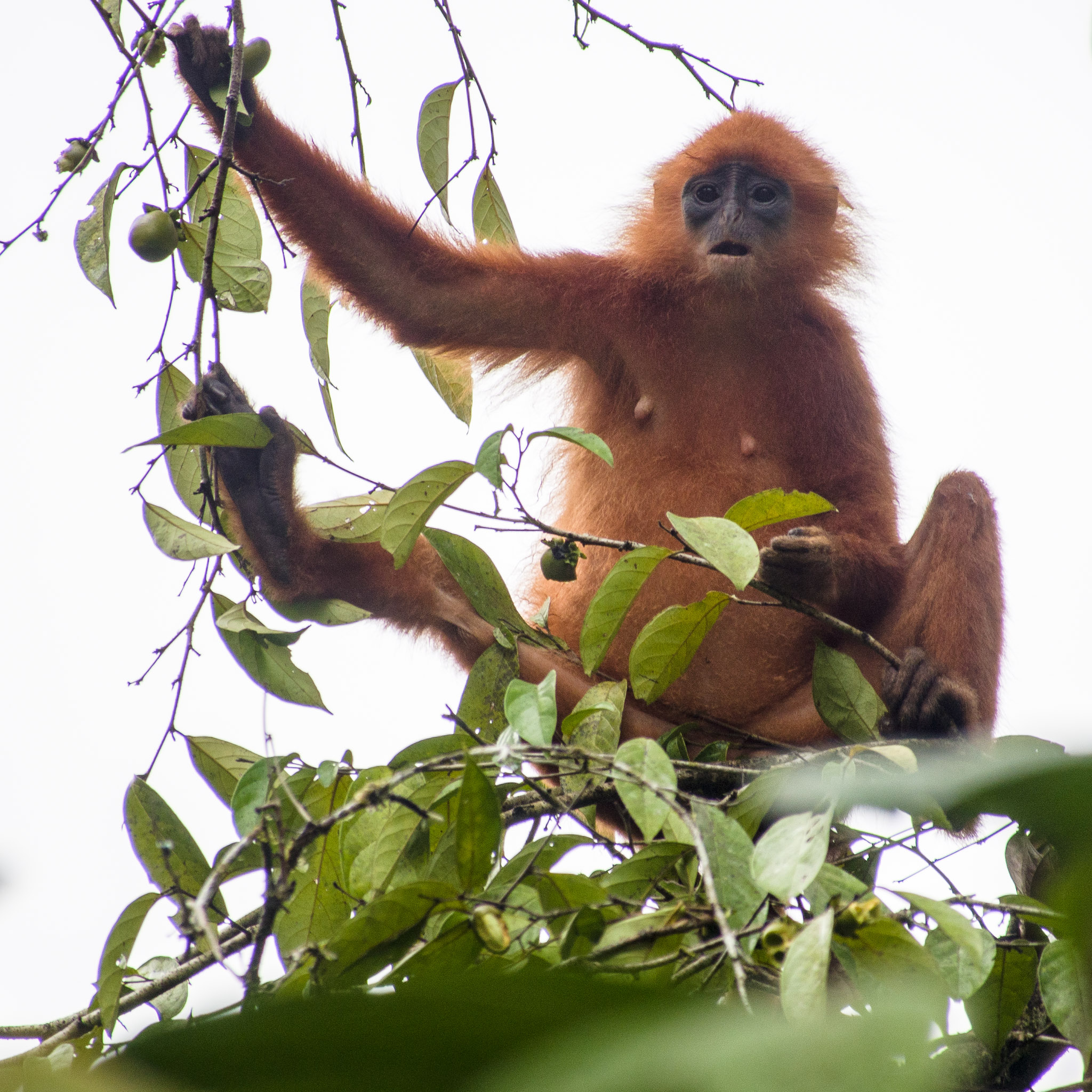 Maroon (or Red) Leaf Monkey